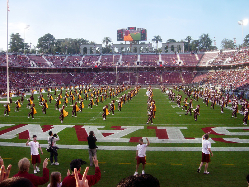 The Spirit of Troy takes the field at Stanford Stadium. Photo taken by Bobak Ha'Eri, on November 4, 2006. Please observe license and properly cite in use outside Wikipedia.